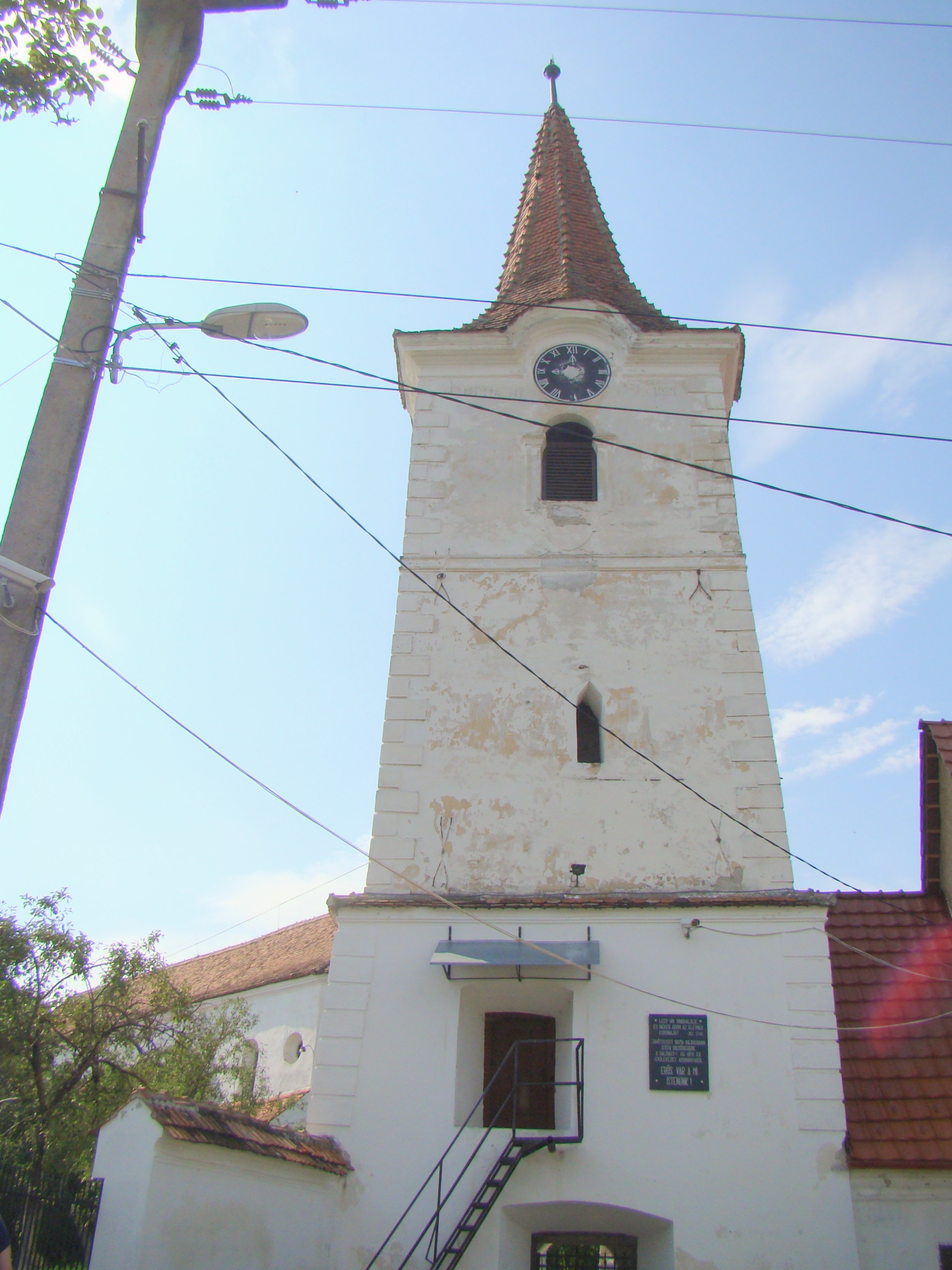 Lutheran church in Hălmeag, Brașov County, Romania